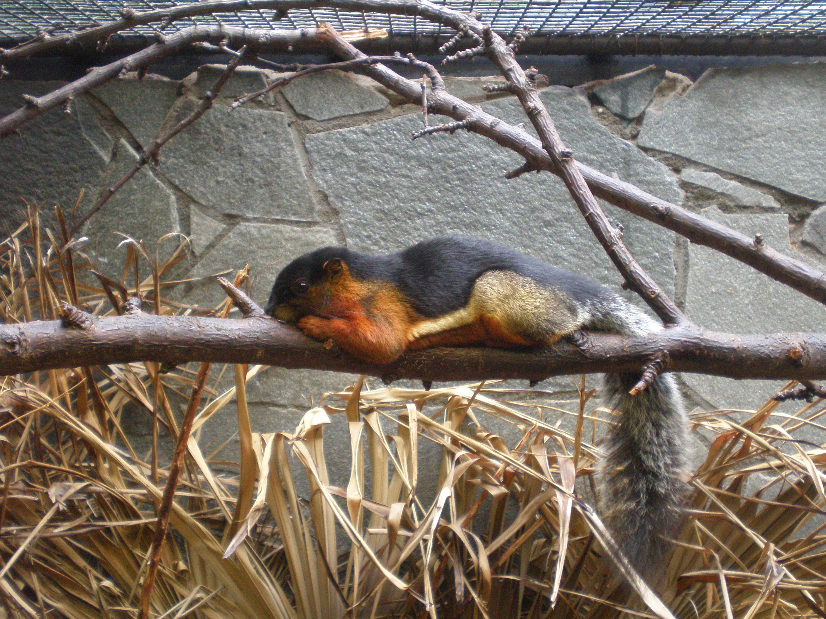 The Prevost's squirrel (Callosciurus prevostii).